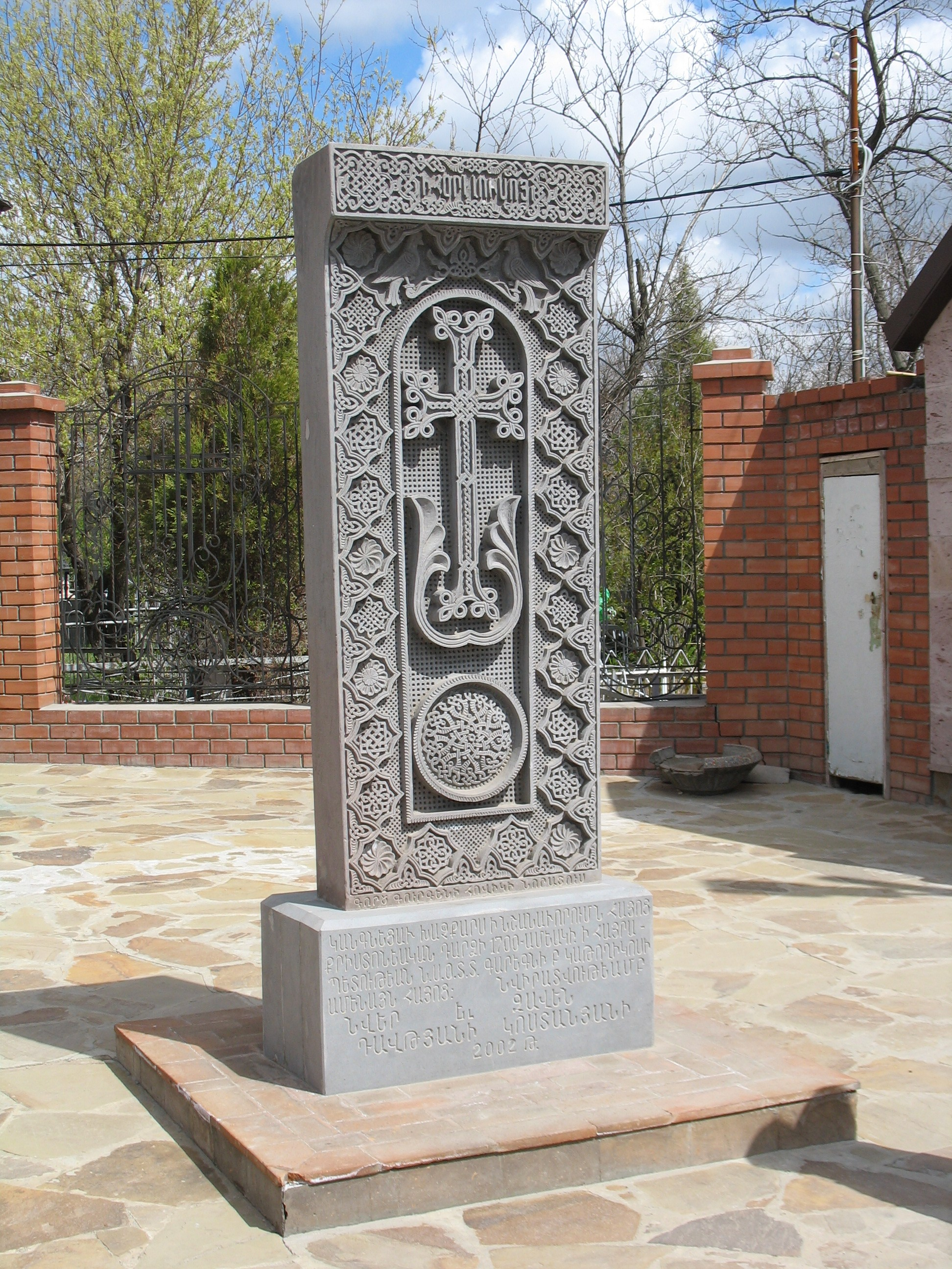 Khachkar in Armenian Church Sourb Gevorg in Volgograd